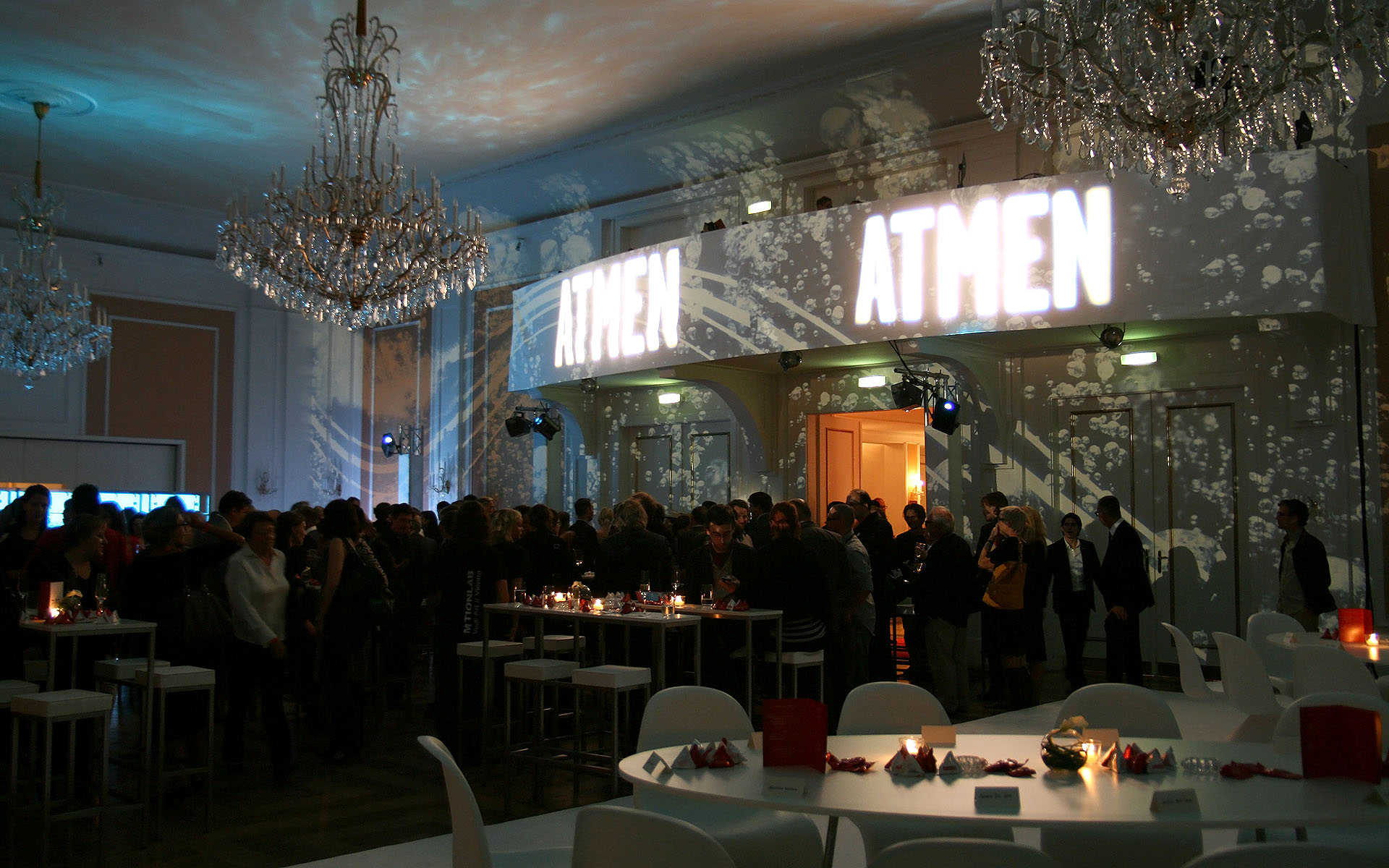 Premiere party after the Austrian premiere of Karl Markovics' movie Breathing at the Kursalon Hübner in Vienna.